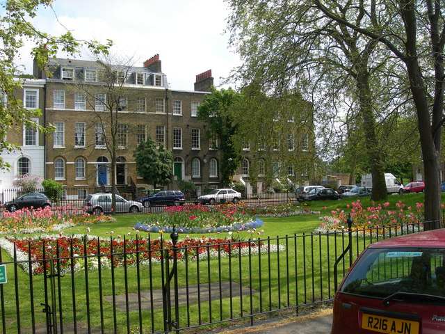 Addington Square SE5. This square is just off Walworth Road. It gained some notoriety during the 1960s because the Richardson Brothers had an illegal "drinking club" named the "Addington Club" in the square. They also had a scrapyard near here from where they ran their criminal enterprises. (See the site in this photo 200880 ) The area has changed a lot since then, physically and socially.